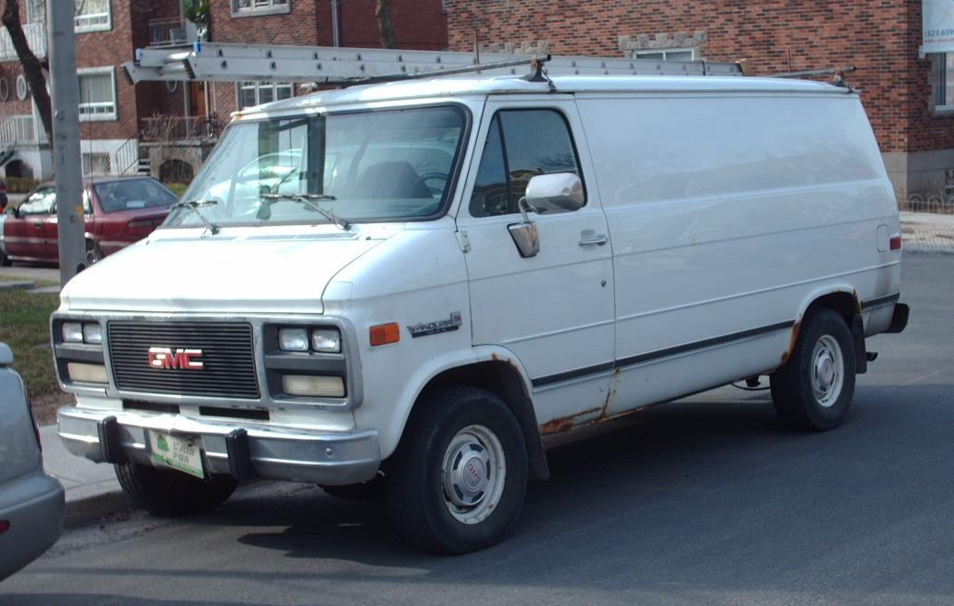 1991-1996 GMC Vandura photographed in Montreal, Quebec, Canada.